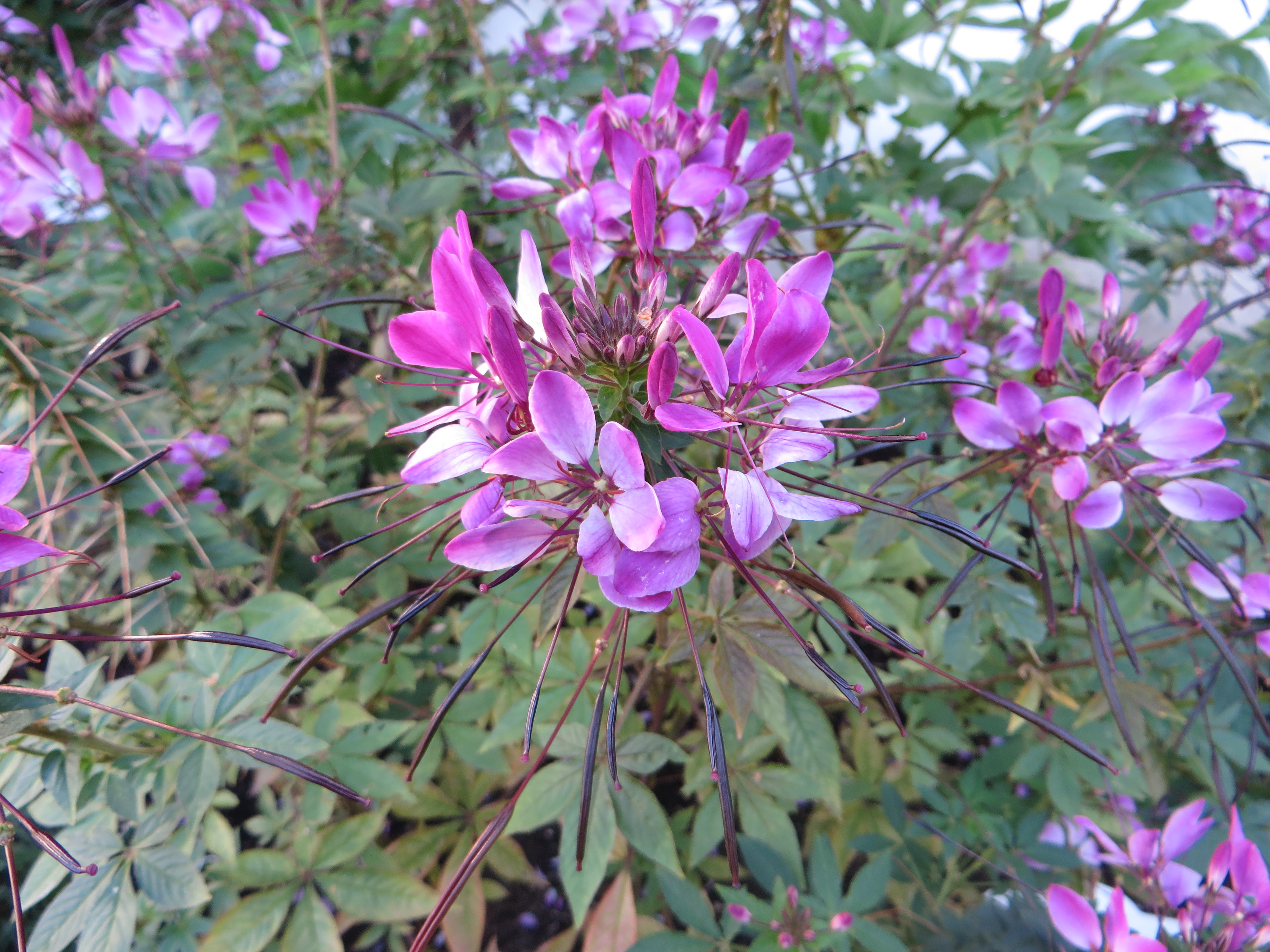 Cleome hassleriana 'Kelly Rose'. The Botanical Garden of the University of Latvia